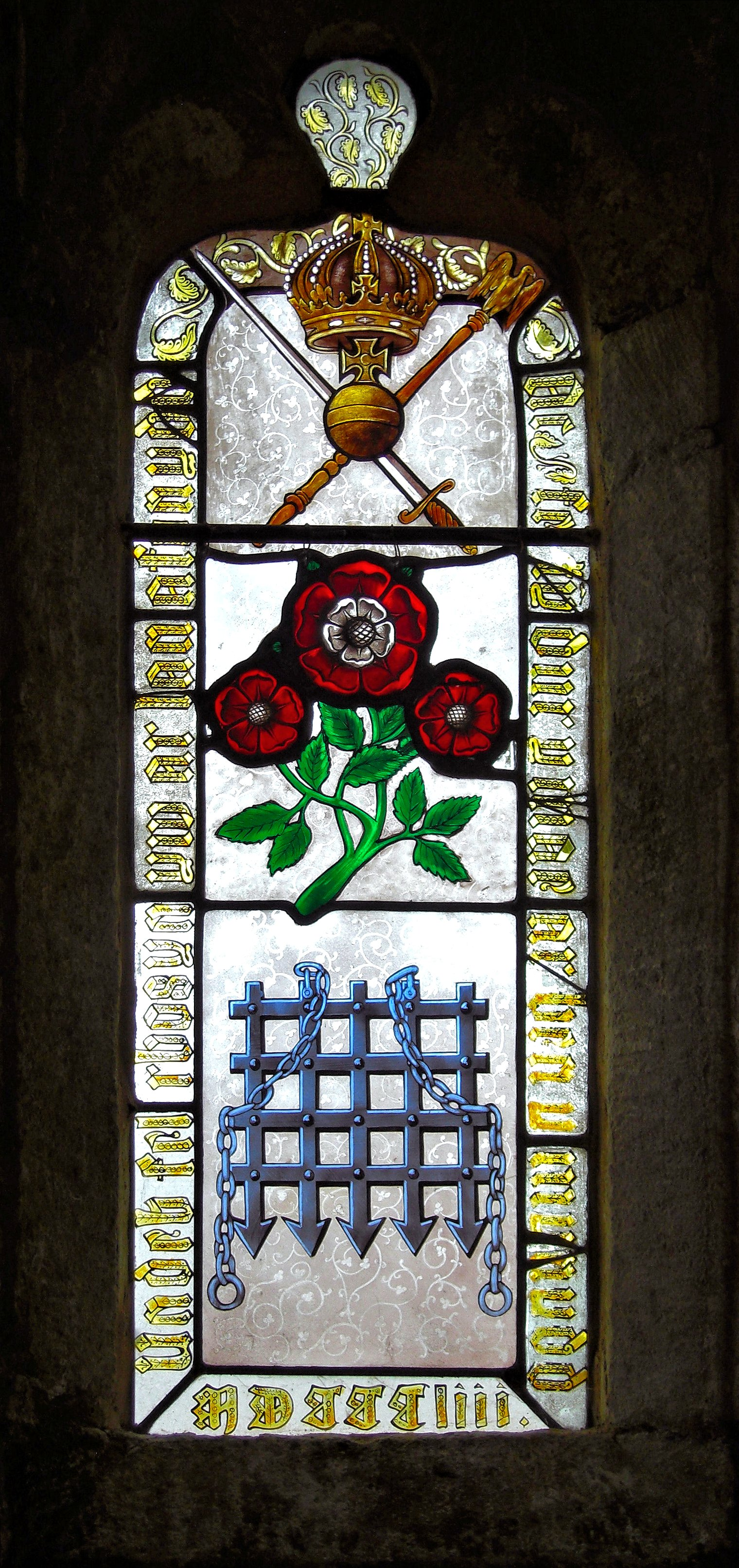 The stained glass Tudor Rose window at the St Gredifael's church at Penmynydd, North Wales. The Welsh words around the window translates as: "Unity is like a rose on a river bank, and like a House of Steel on the top of a mountain". The Welsh of "House of Steel" is a pun "Ty Dur", or Tudor.